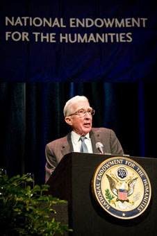 root-0-20